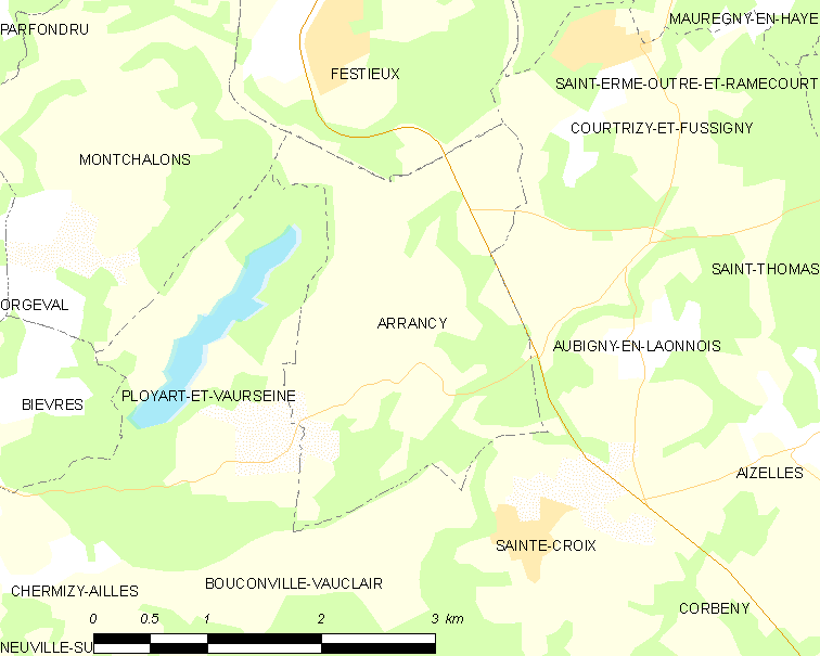 Map of French commune: Arrancy Map commune FR insee code 02024.png